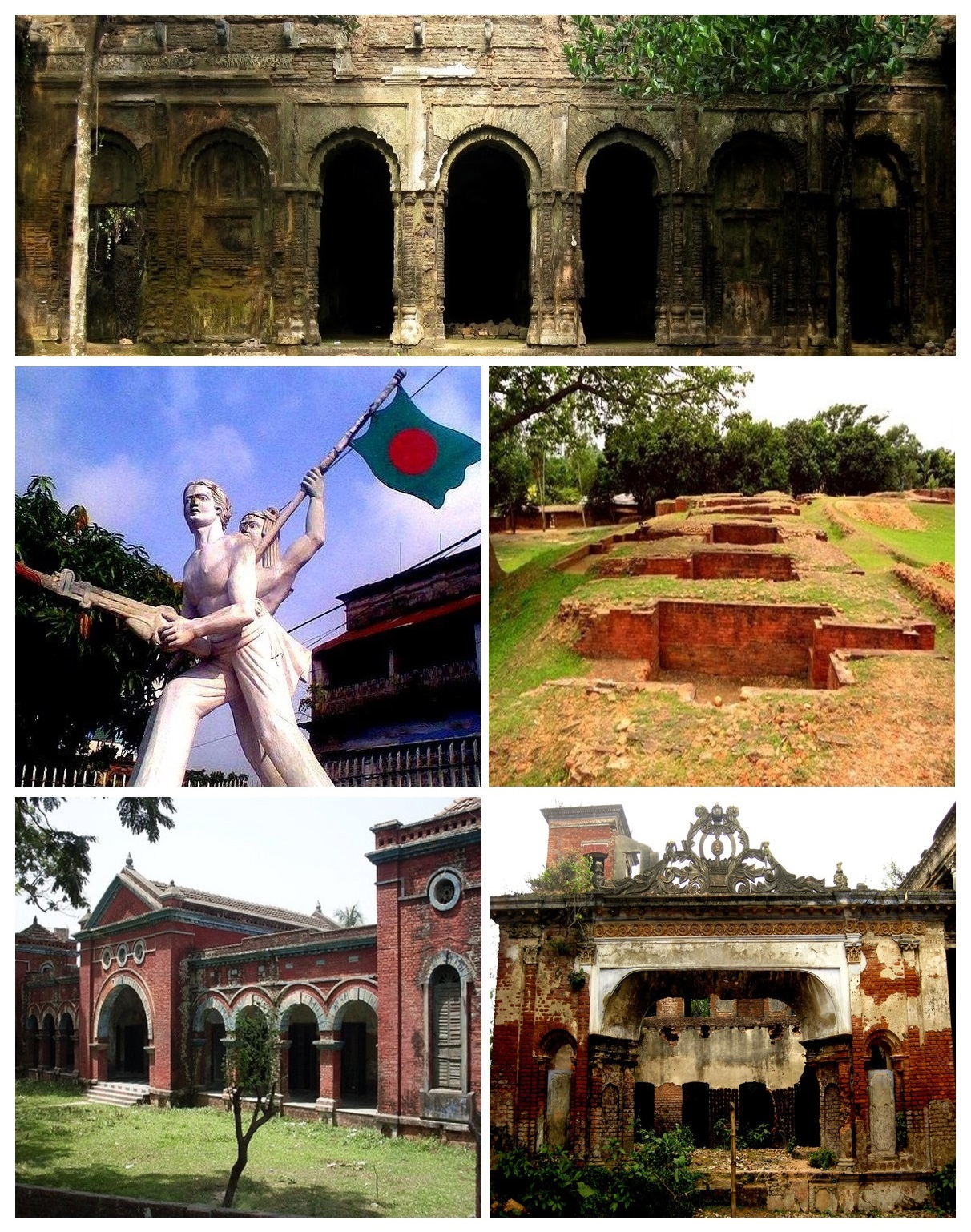 Montage of Naogaon District, Bangladesh. Clockwise from top: Balihar Royal Palace (Naogaon Sadar), Jogoddol Bihar, Dubalhati Royal Palace, Gaza Society Office, Shadhinota Monument.